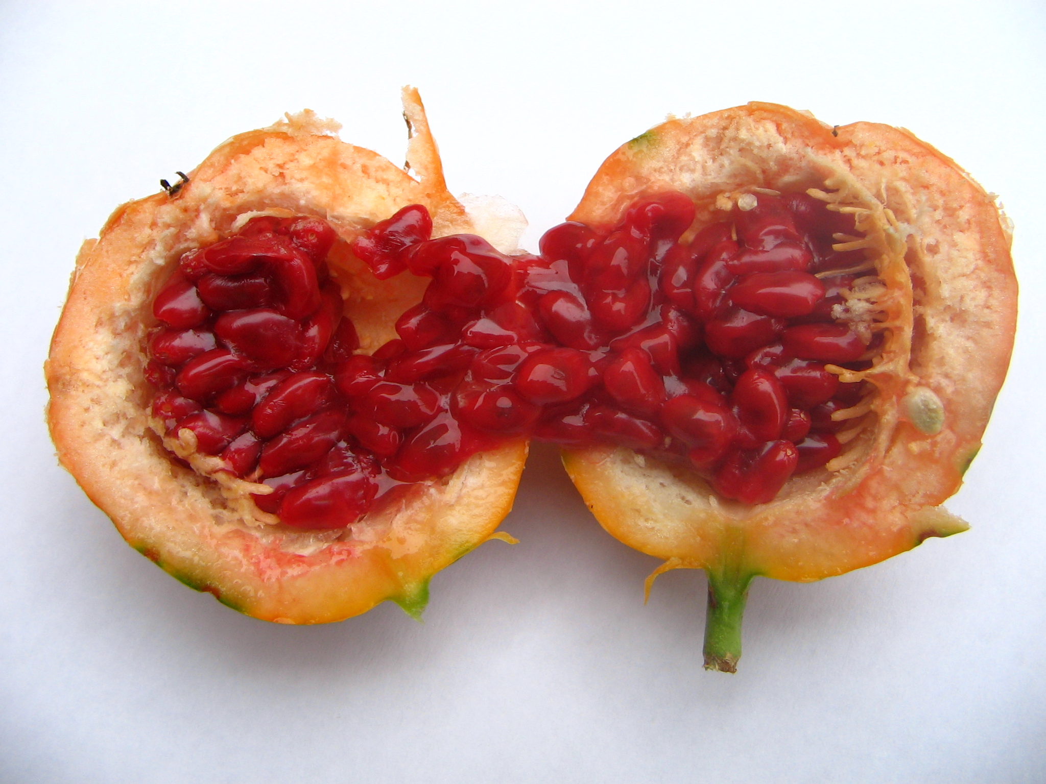 Passiflora caerulea fruit, opened to show its contents